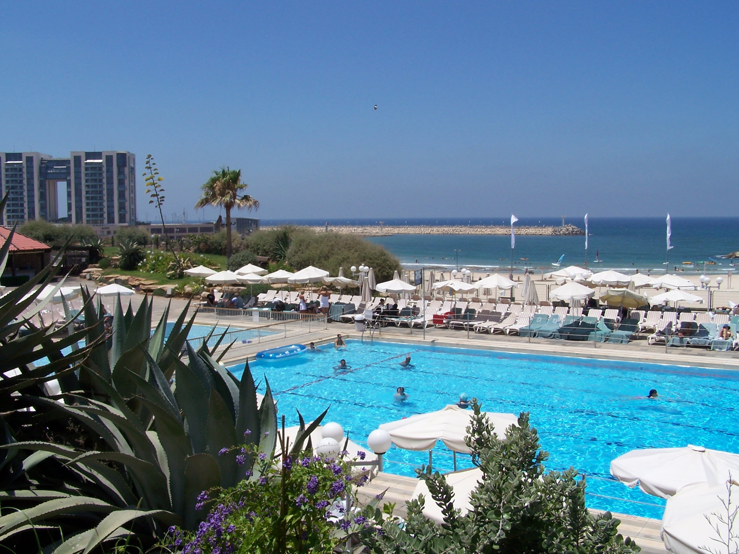 Swimming pool in Dan Accadia hotel, Herzliya